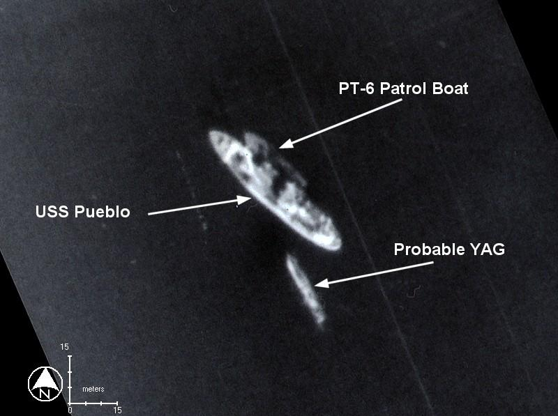 USS Pueblo after captured by North Korea, photographed from Lockheed A-12 spyplane.